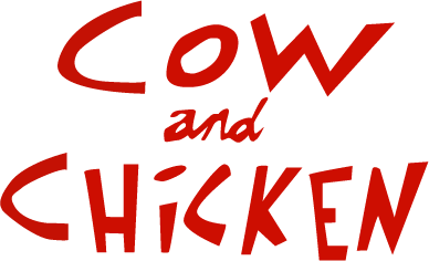 Logo for the series Cow and Chicken